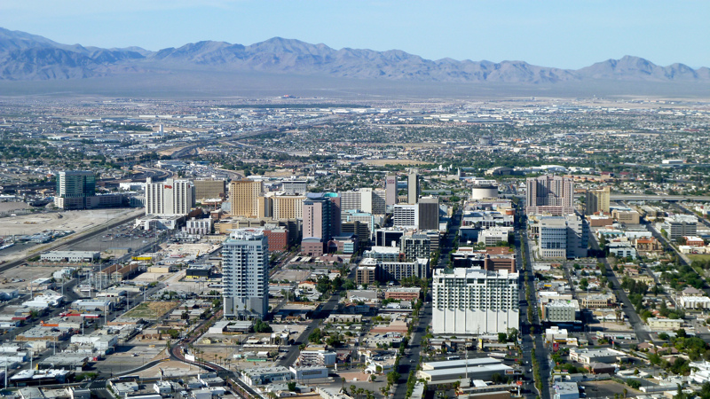 View of the City of Las Vegas